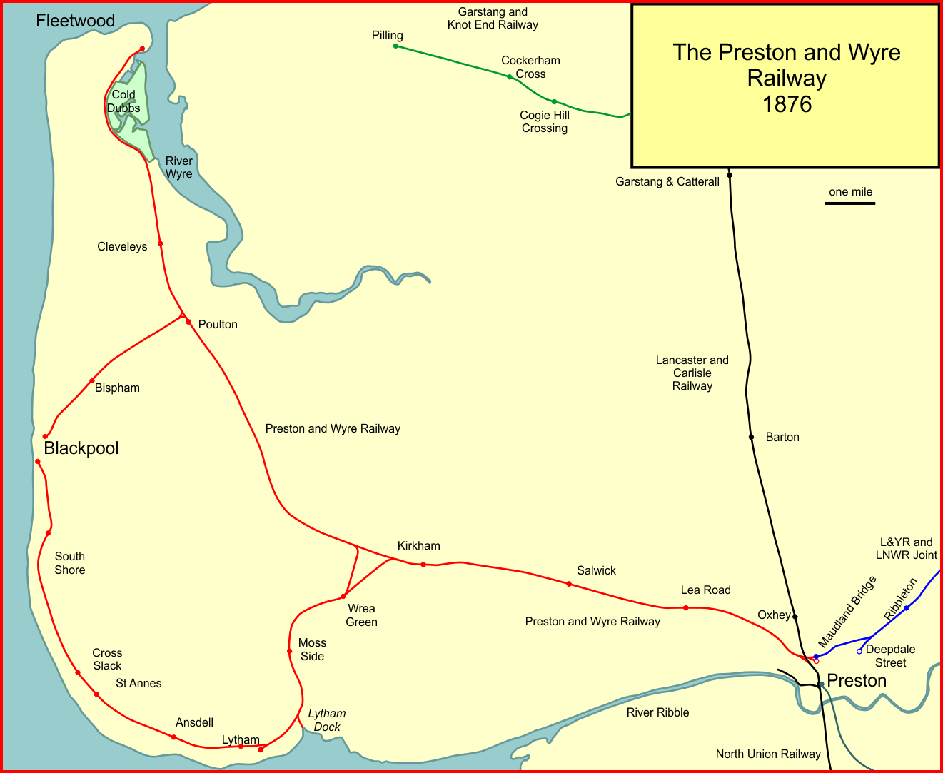 System map of the Preston and Wyre Railway, Lancashire, England, in 1876